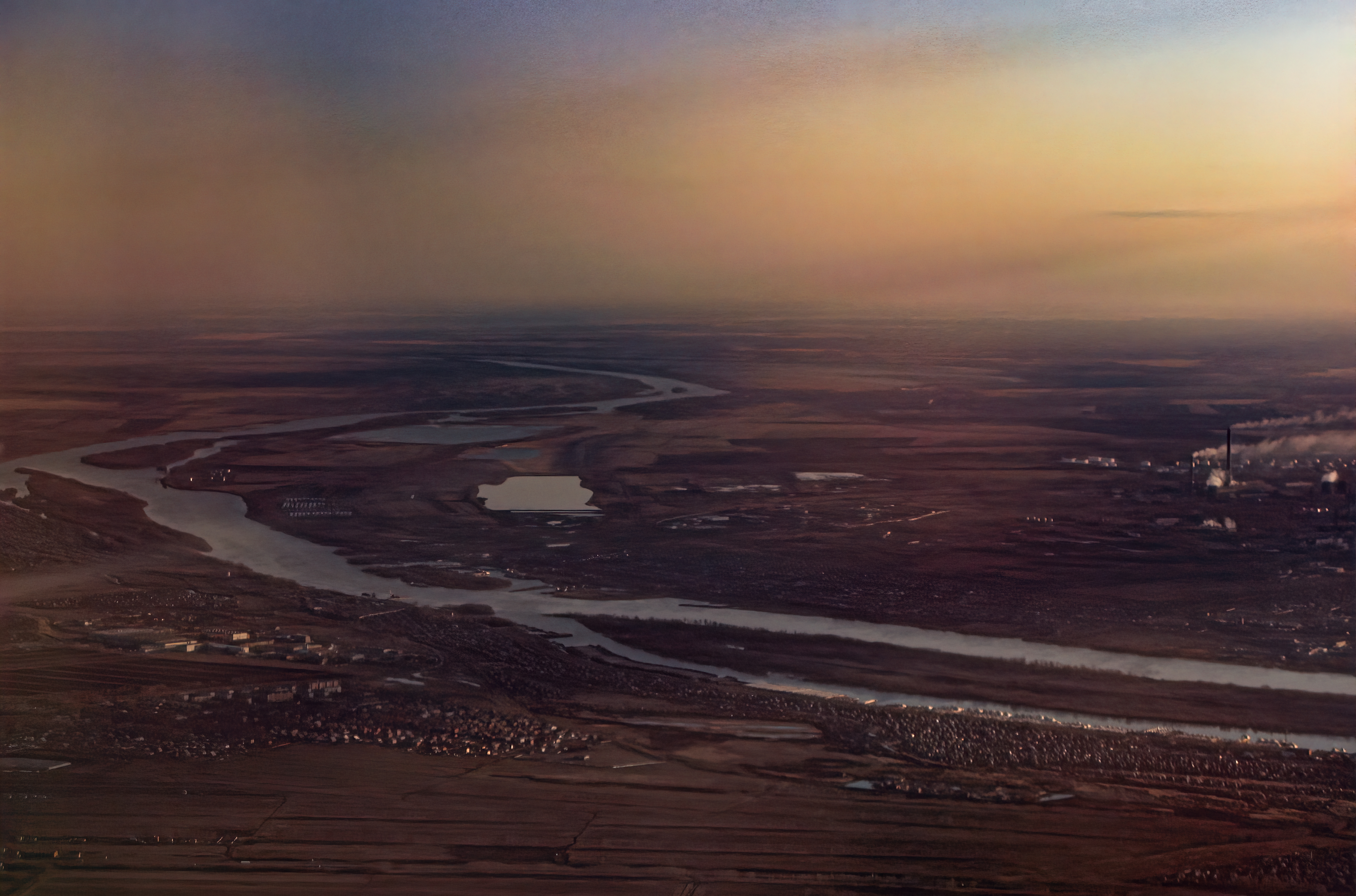 Irtish river as seen from the air over Omsk, Siberia, Russia.